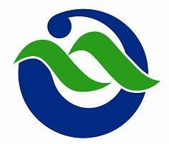 Nakatosa Kochi chapter